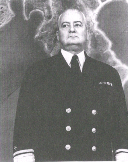 United States Navy Rear Admiral Robert A. "Fuzzy" Theobald (1884-1957) standing before a map of Kiska.